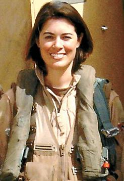 Major Nicole Malachowski, USAF F-15 pilot and first woman to fly with the Air Force Thunderbirds demonstration team